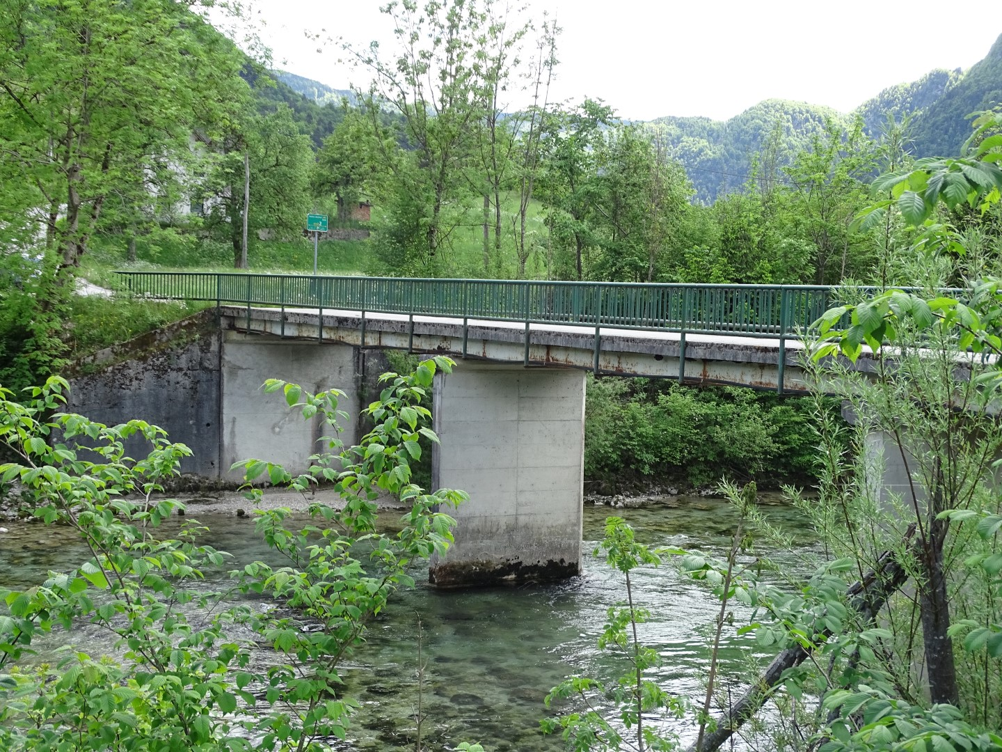 bridge across the river Sava at Kupljenik